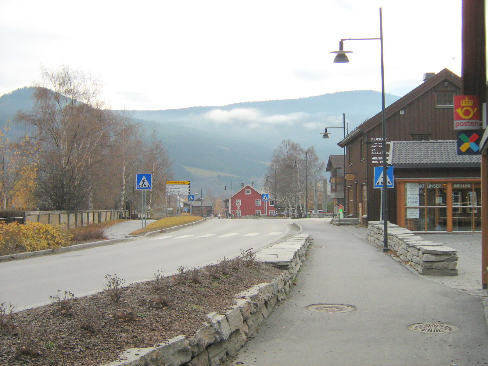 Vågåmo town